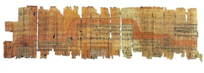 Ancient Egyptian Plan of the Royal Tomb of Ramses IV. in the Valley of the King, now Papyrus Turin 1885 in the Egyptian Museum Turin